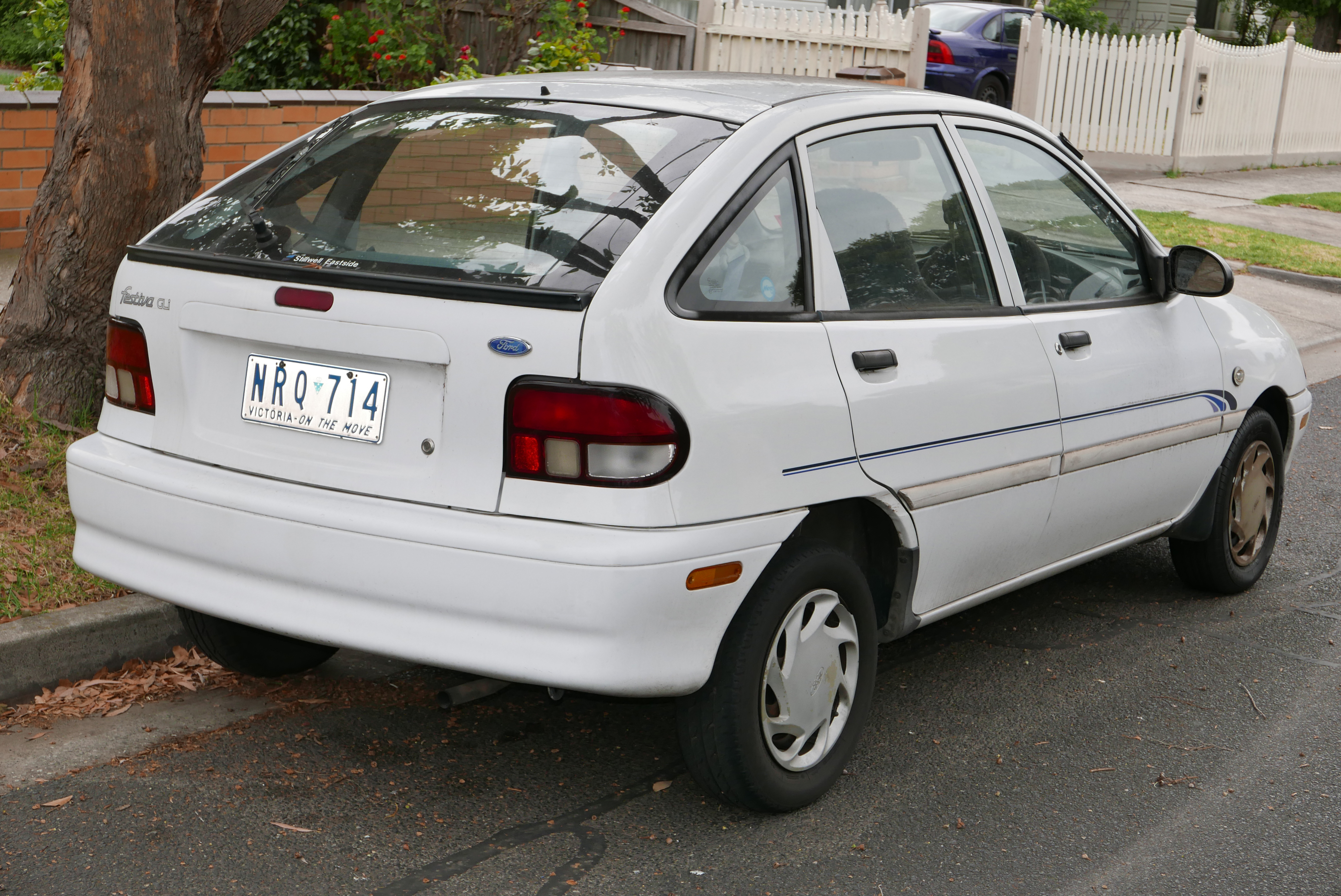 1996 Ford Festiva (WB) GLi 5-door hatchback. Photographed in Pascoe Vale, Victoria, Australia. Vehicle registration enquiry results Jurisdiction Victoria Registration NRQ714 Chassis code KNADB11K5S6324443 Engine code B3149608 Compliance date 1996-01 Year of manufacture 1996